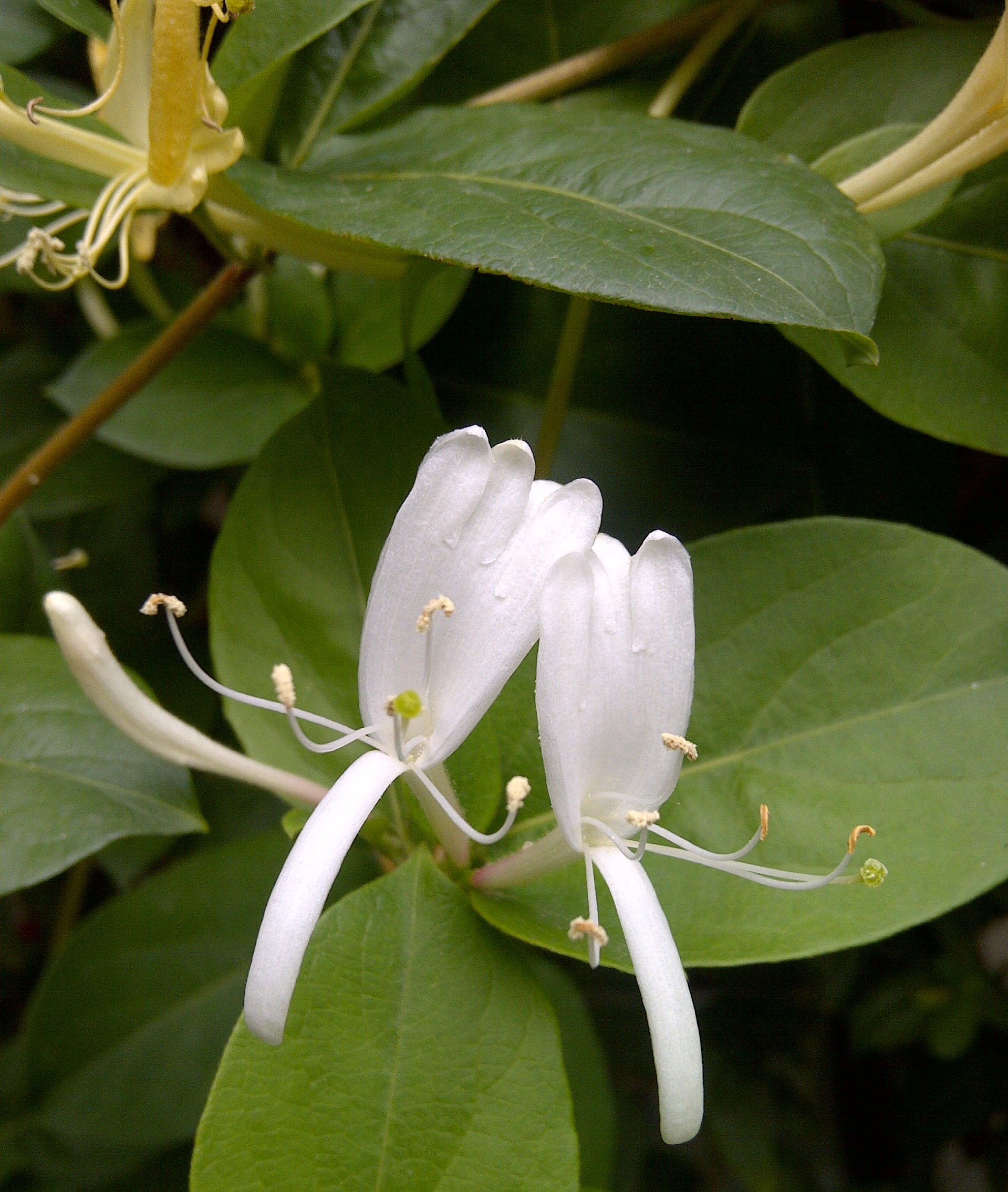 Honeysuckle flower, after few days it changes to yellow